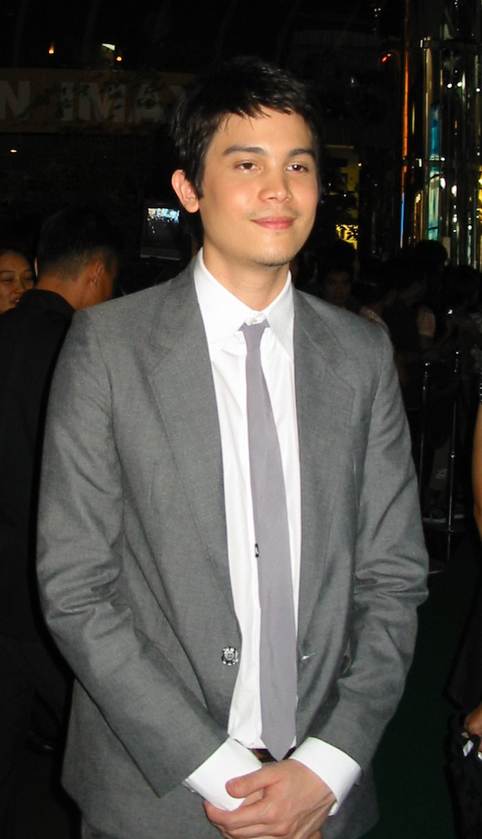 Sunny Suwanmethanon at Star Entertainment Awards 2007